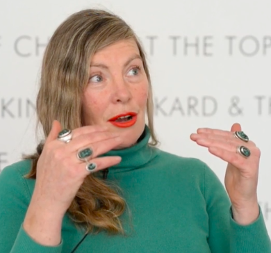 Orla Barry profile picture